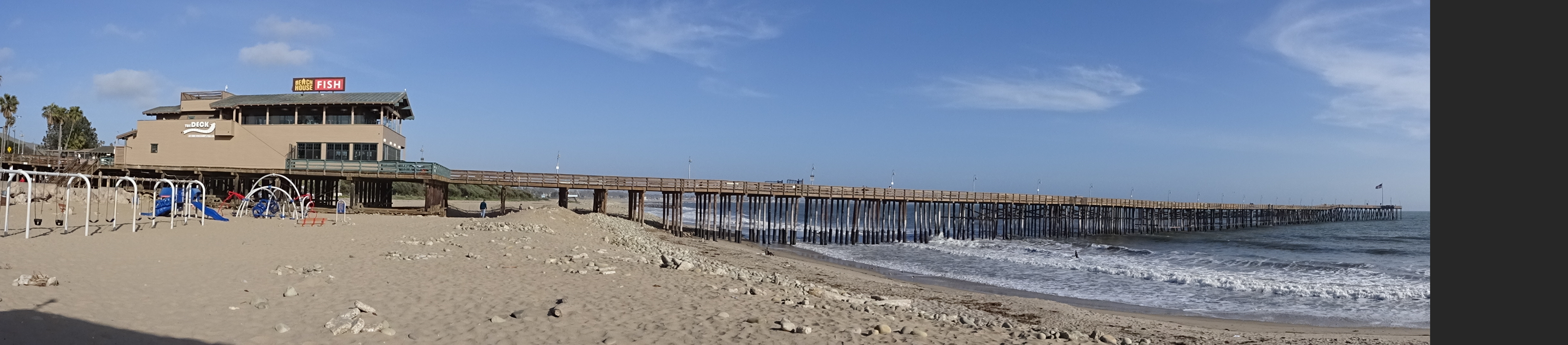 Panorama shot of Ventura Pier